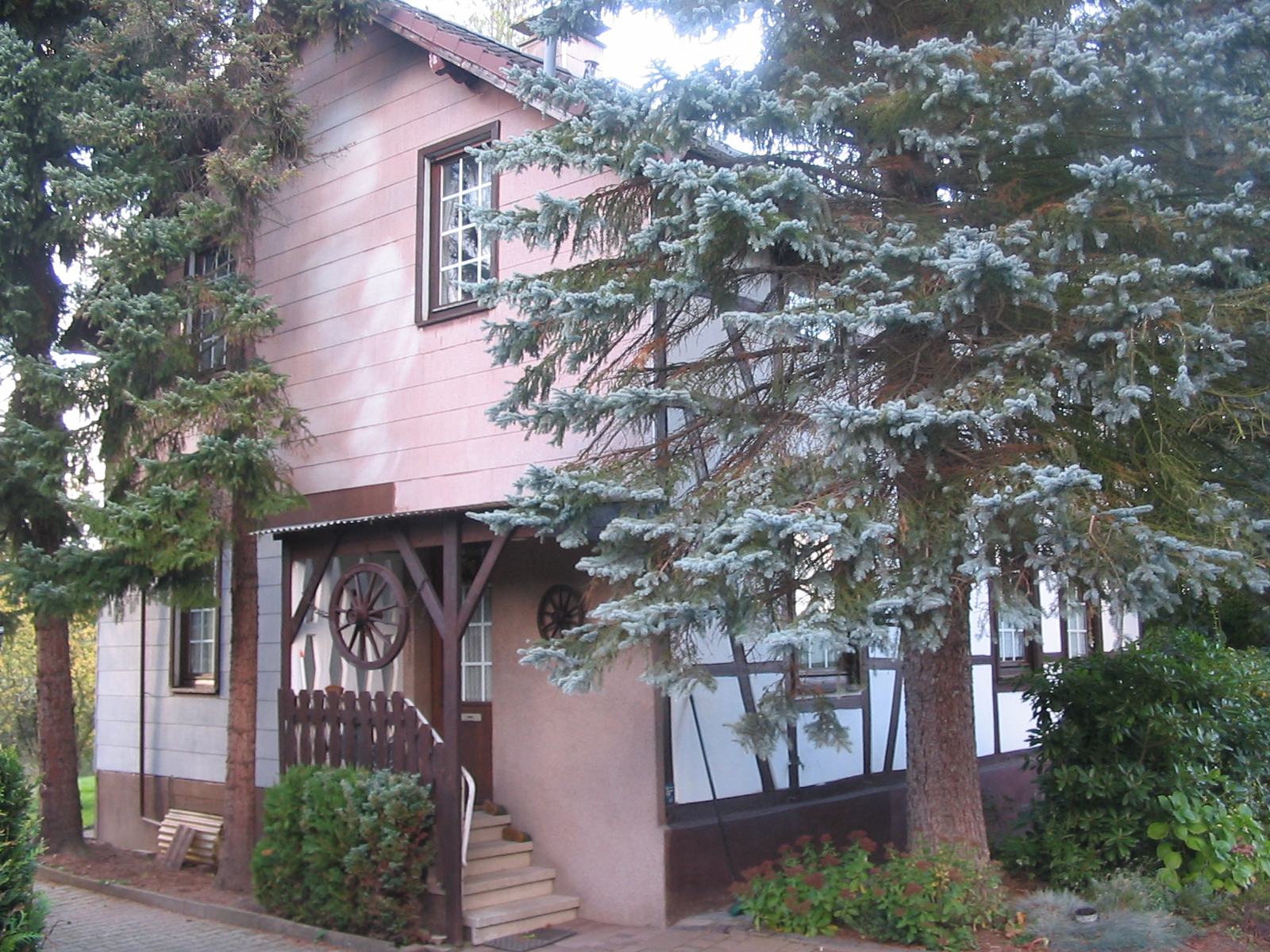 house Auf der Marta 1 in Witten, former steiger house of mine Zeche Marta